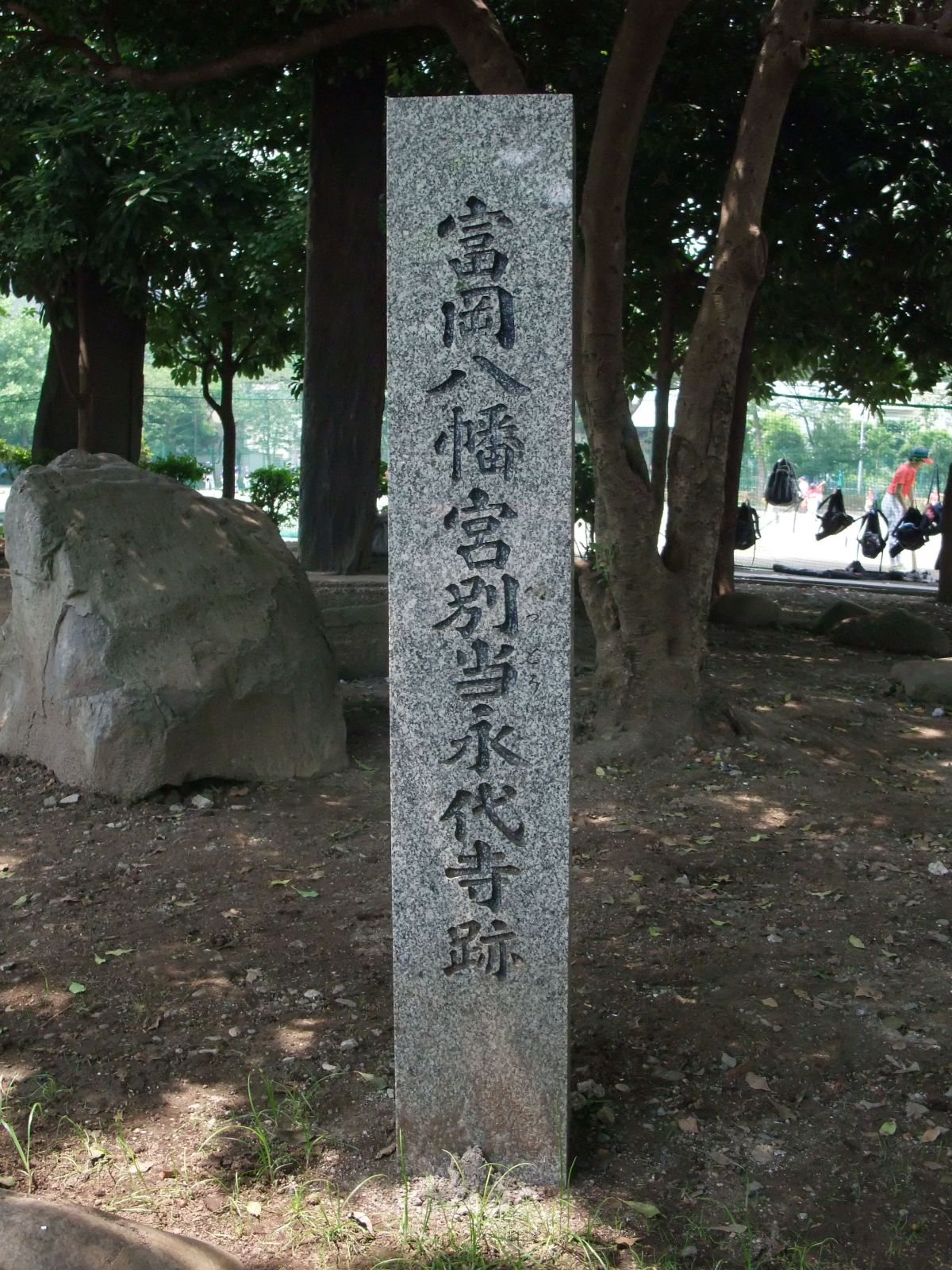 Stele of the Eitai-ji temple (original) in Koto, Tokyo